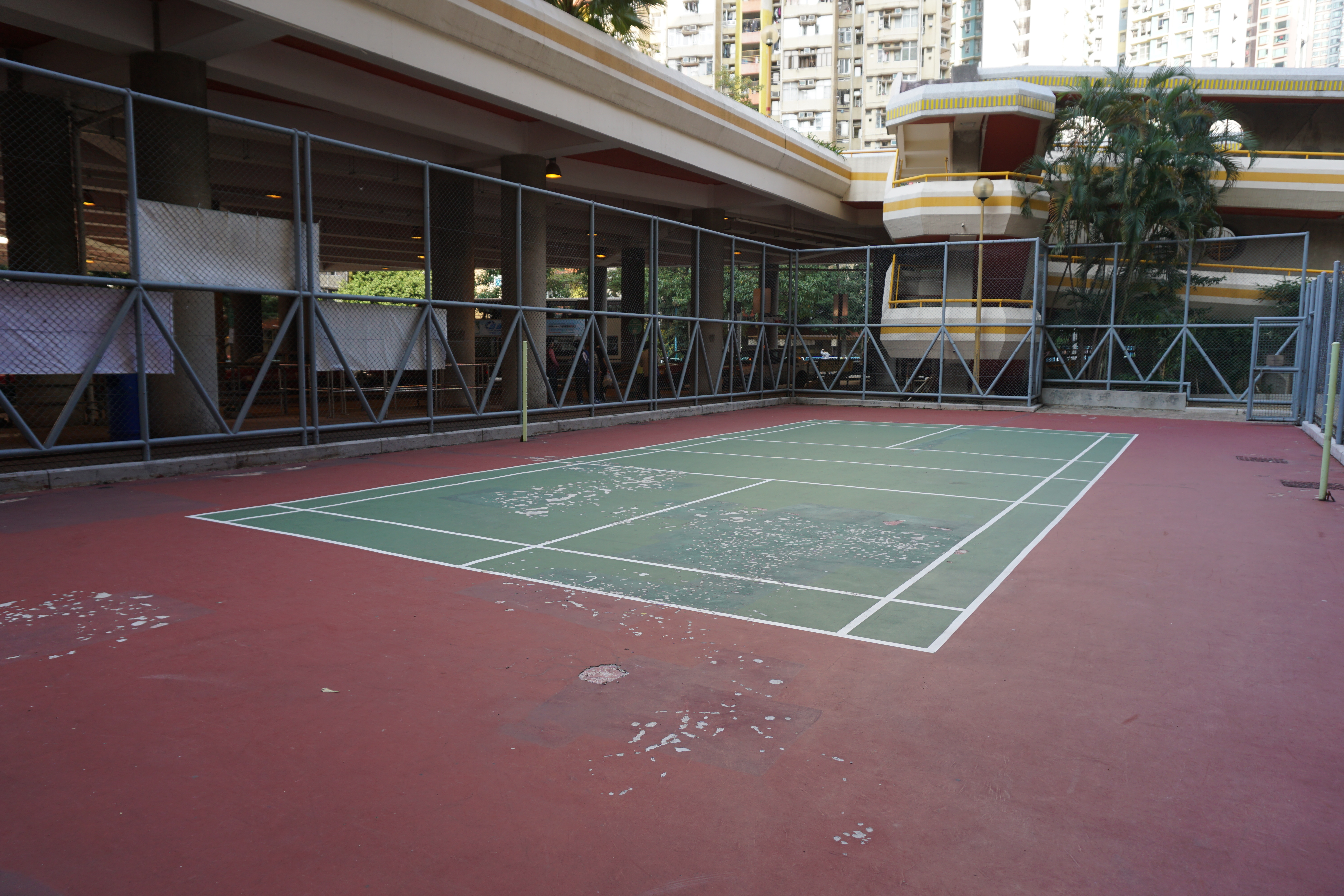 Cheung On Estate in Tsing Yi, Hong Kong.